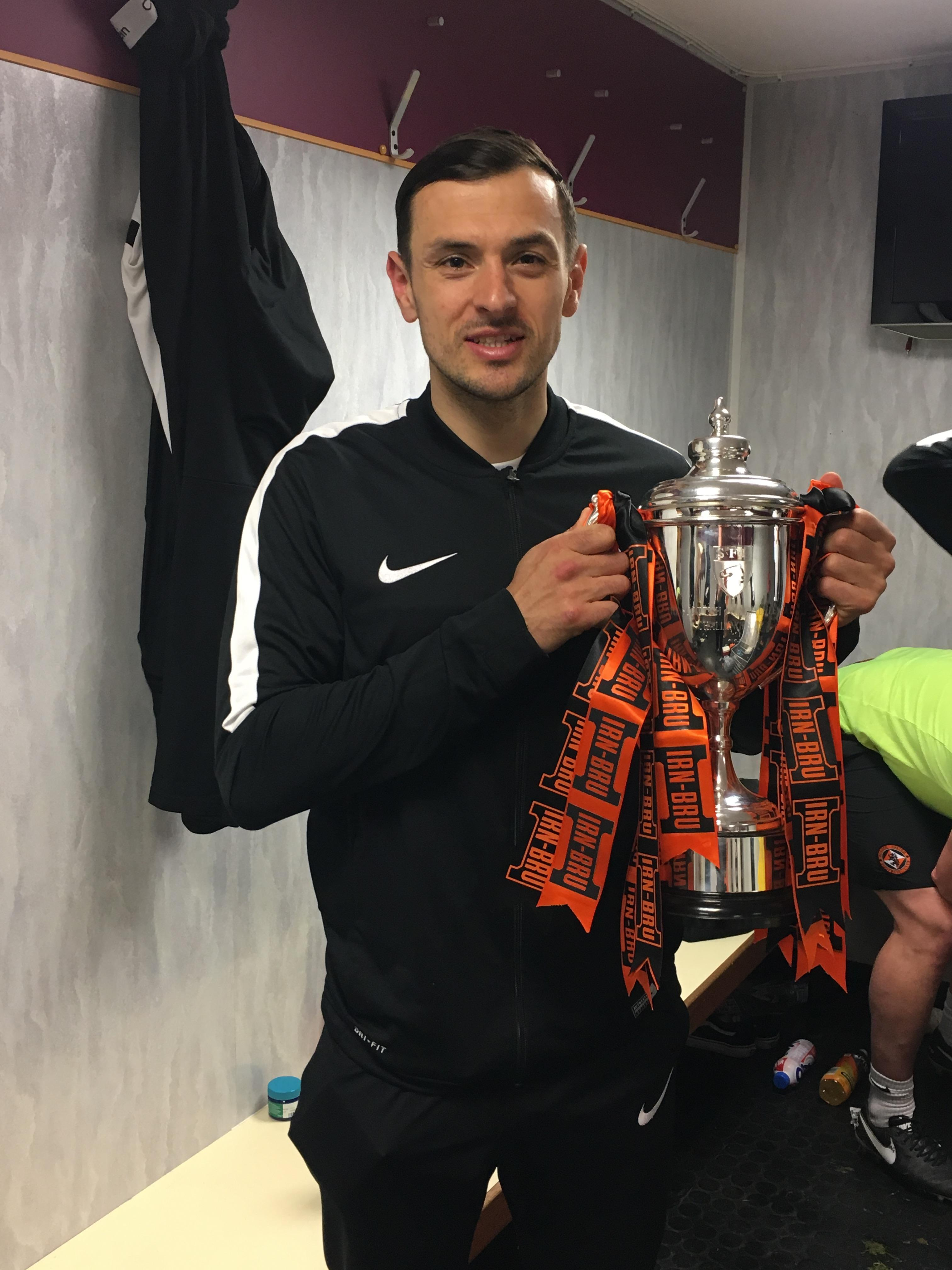 Alex Nicholls Cup Final